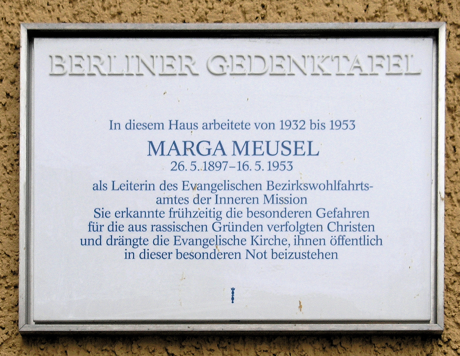 Berlin memorial plaque, Marga Meusel, Teltower Damm 4, Berlin-Zehlendorf, Germany Koordinate:52°26′46″N 13°15′33″E / 52.44611°N 13.25917°E